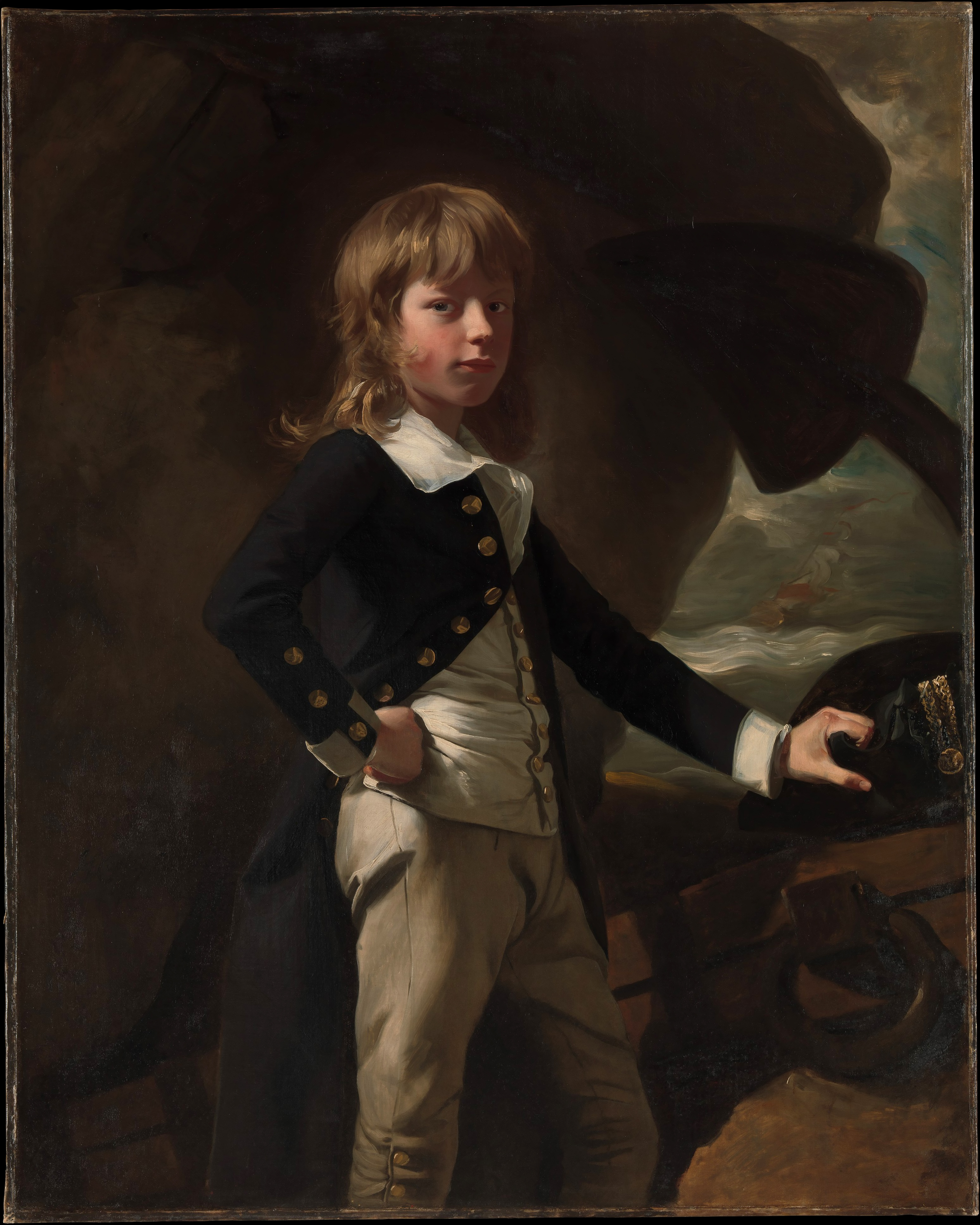 Midshipman Augustus Brine (1769–1840), painted in 1782 while serving aboard his father's ship, HMS Belliqueux, being 13 years old.